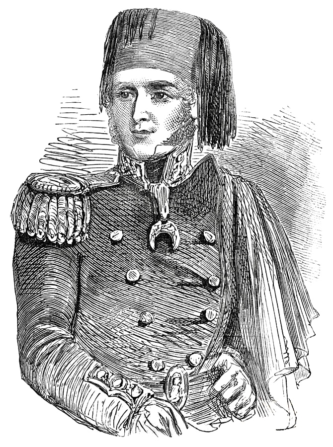 Portrait of Adolphus Slade in Ottoman service during the Crimean war